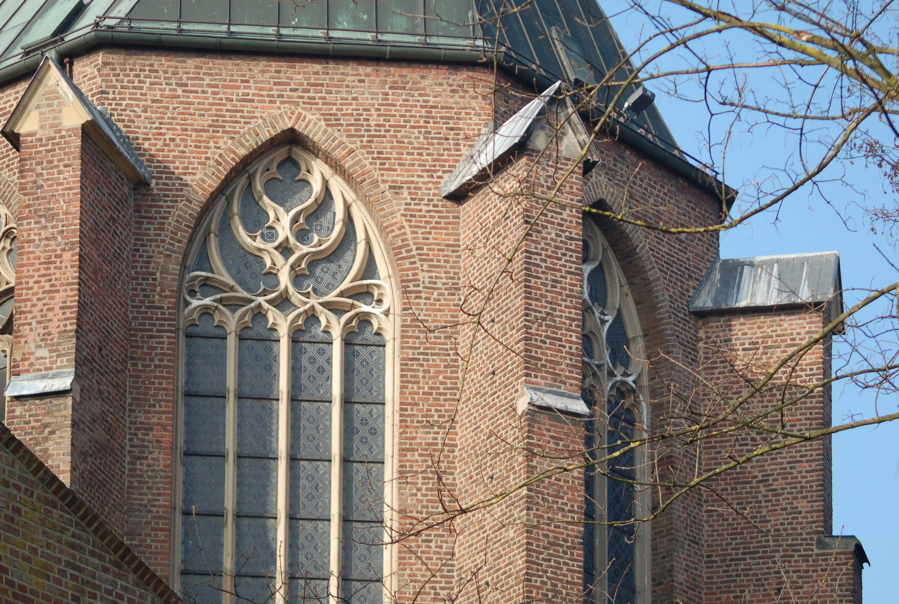 St. Gangolf, Heinsberg, Rhineland, detail of the choir from SO